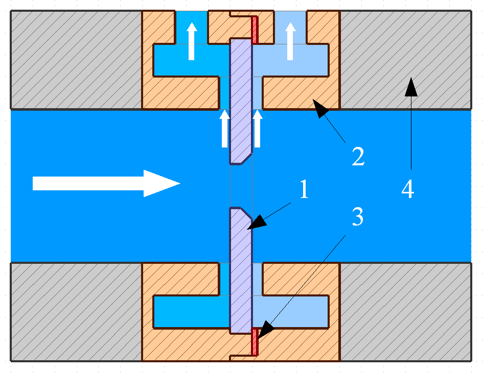 diaphragm cell standard for flow rate measuring